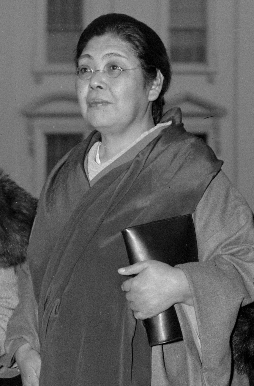 Japanese women's leader is received by first lady. Washington, D.C., Dec. 7. Mrs. Waka Yamada (山田わか), Japanese Women's Leader and journalist, leaving the White House today after delivering a message of peace to Mrs. Roosevelt from women of Japan. Mrs. Yamada told Mrs. Roosevelt that the mothers of Japan and Chine do not have each other, and want to work together to end the conflict in the far east. 12/7/37. (this description is another image[1]'s title from unverified caption data received with the Harris & Ewing Collection)